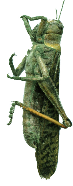 Metarhizium acridum fungus, that only infects locusts (pictured) or grasshoppers